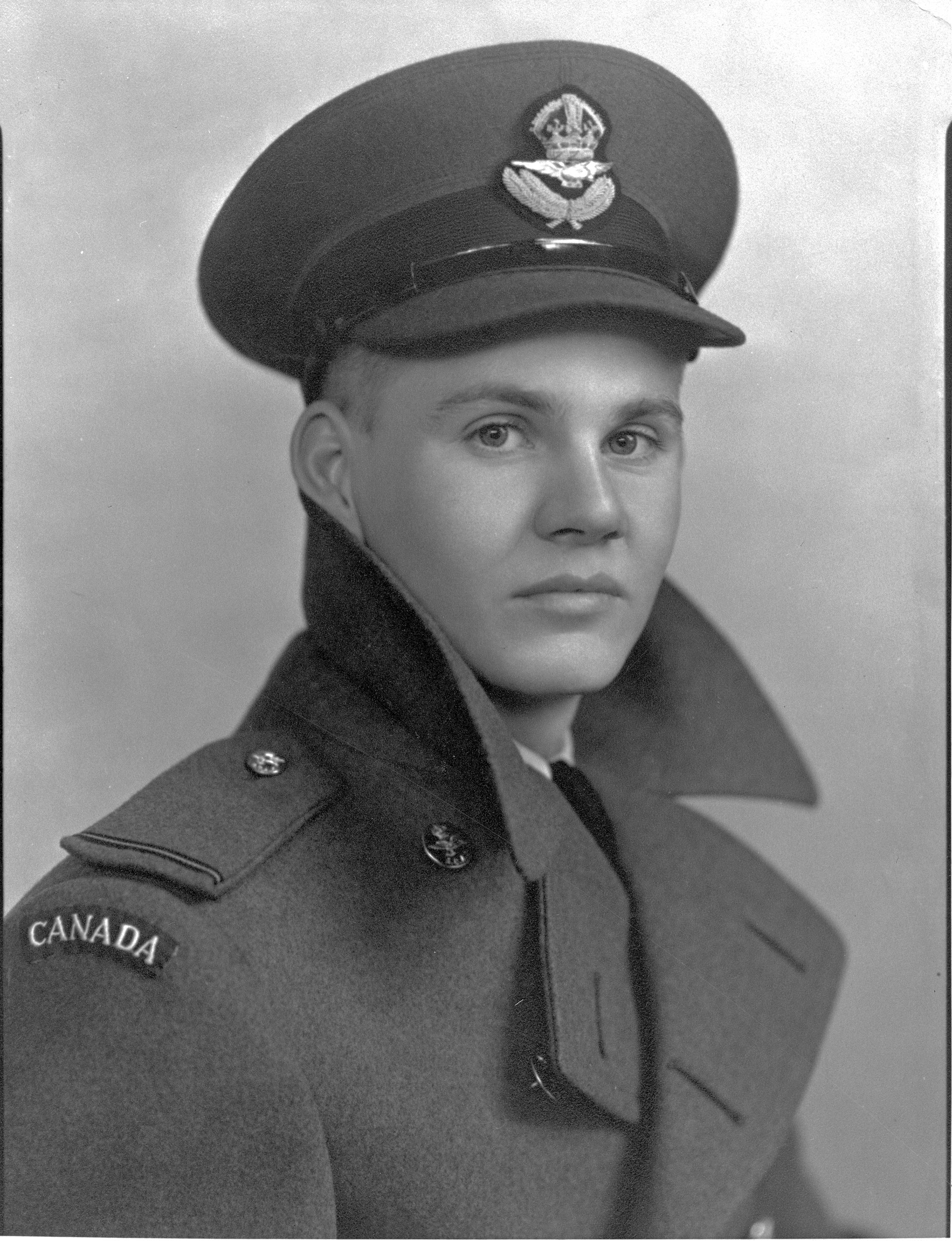 ca. 1945. From the Carl Walin fonds, A6622